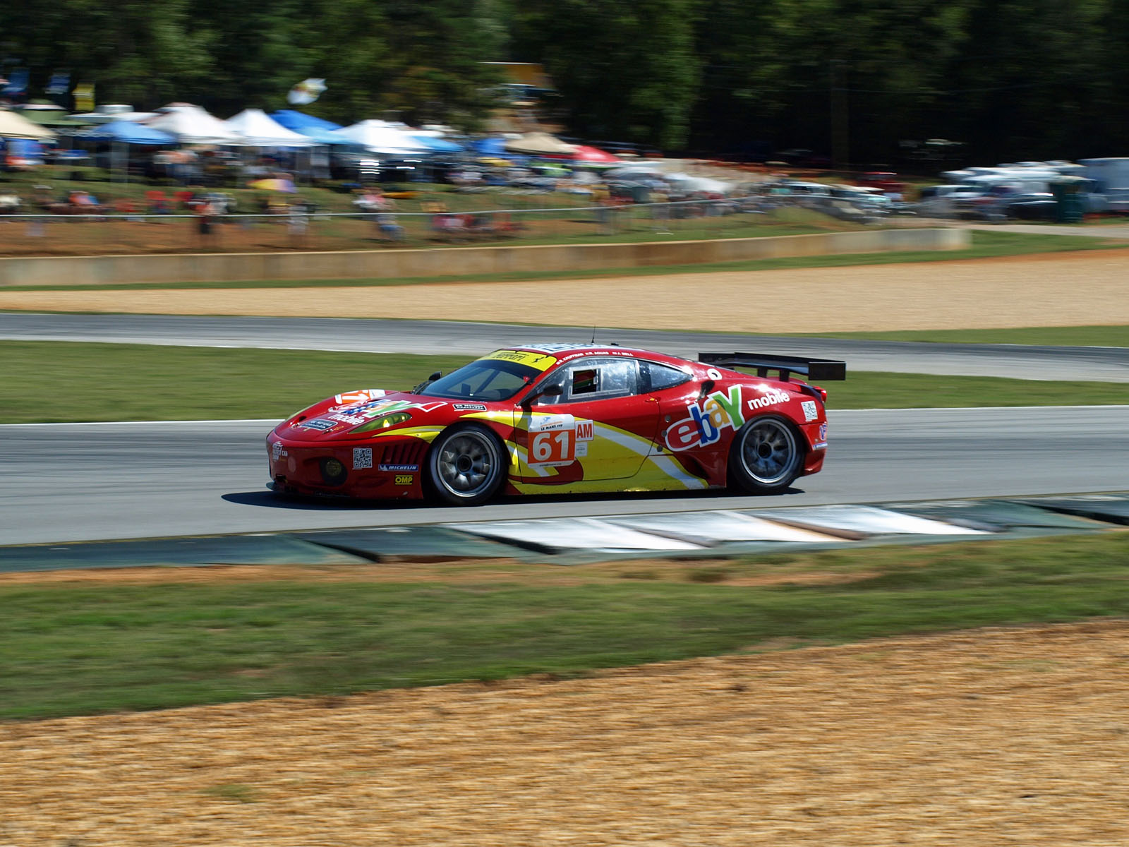 Rui Águas driving the AF Corse Ferrari 458 in qualifying for the 2011 Petit Le Mans at Road Atlanta.